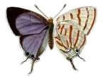 Trimen, 1891 On Butterflies collected in tropical South-Western Africa, by Mr. A. W. Eriksson Proc. zool. soc. Lond. 1891 Hypolycena caeculus (Hopff.) Plate IX. fig. 14 male accepted name Hypolycaena caeculus (Hopffer, 1855)[1]